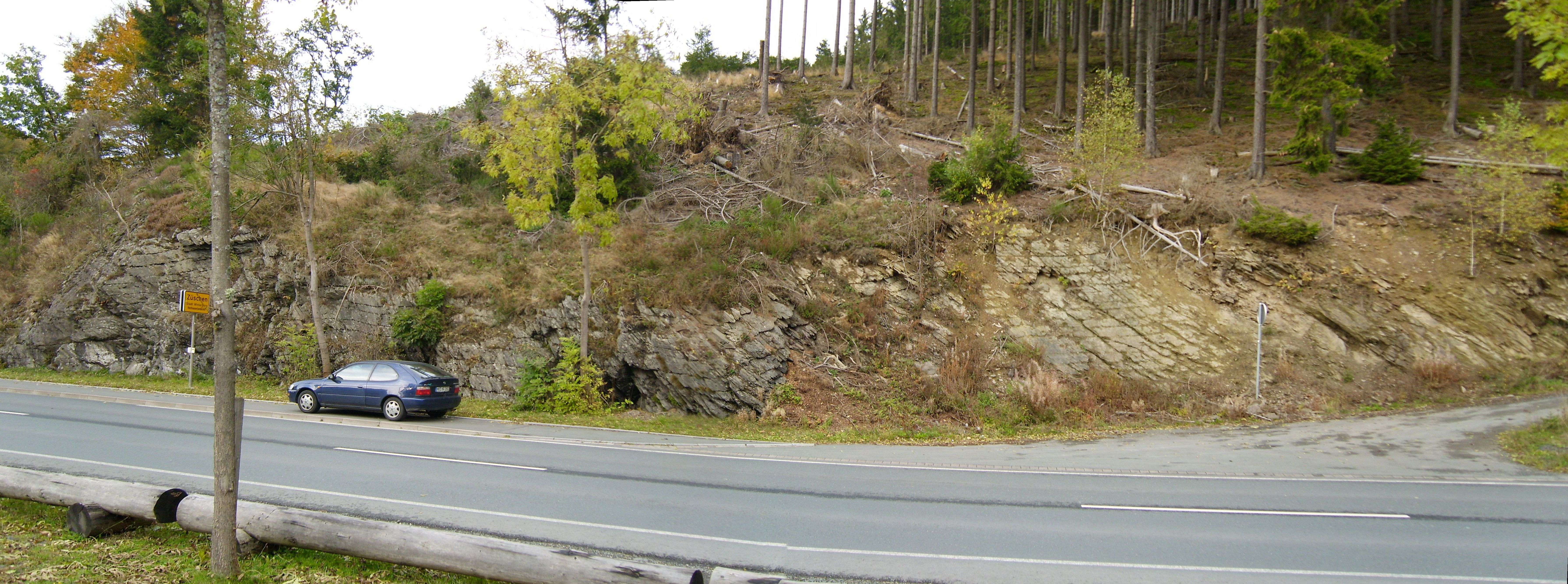 Banded shales of Langewiesener Schichten ("Langewiese beds", Late Emsian, latest Early Devonian) in a road cut of federal road (B) 236 at the town exit of Züschen towards town of Hallenberg. Rothaar Mountains, North Rhine Westphalia, Germany.